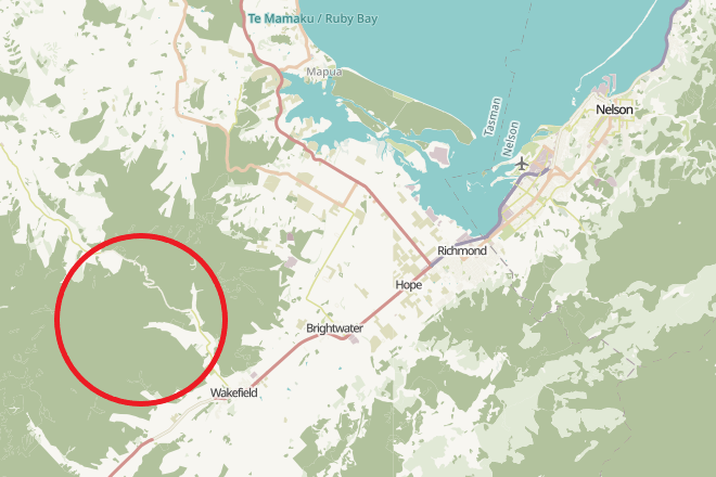 Map showing the location of Pigeon Valley in the Nelson-Tasman region in New Zealand